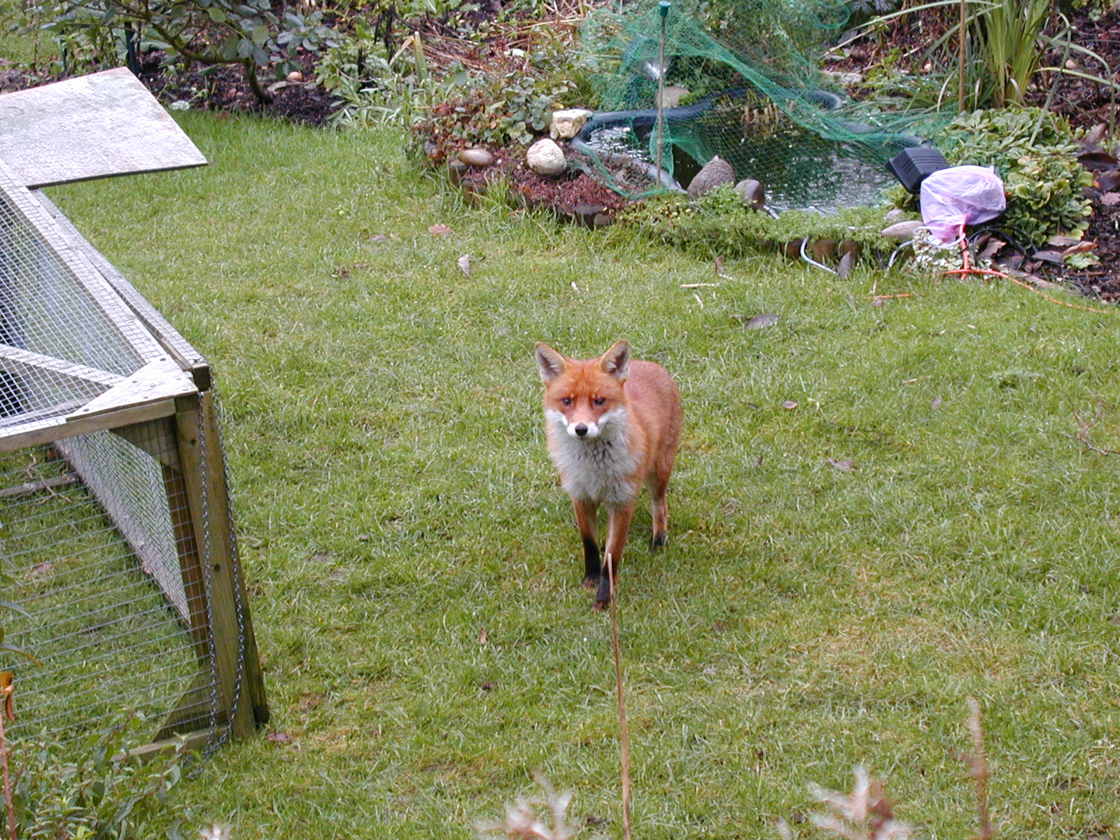 An urban fox in a garden in Birmingham, England.